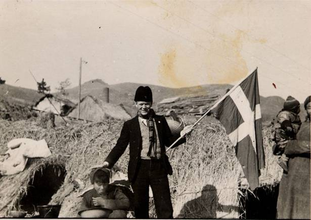 Original caption by B.A. Sindberg: "The photographer on inspection in the refugee camp, outside Nanking."